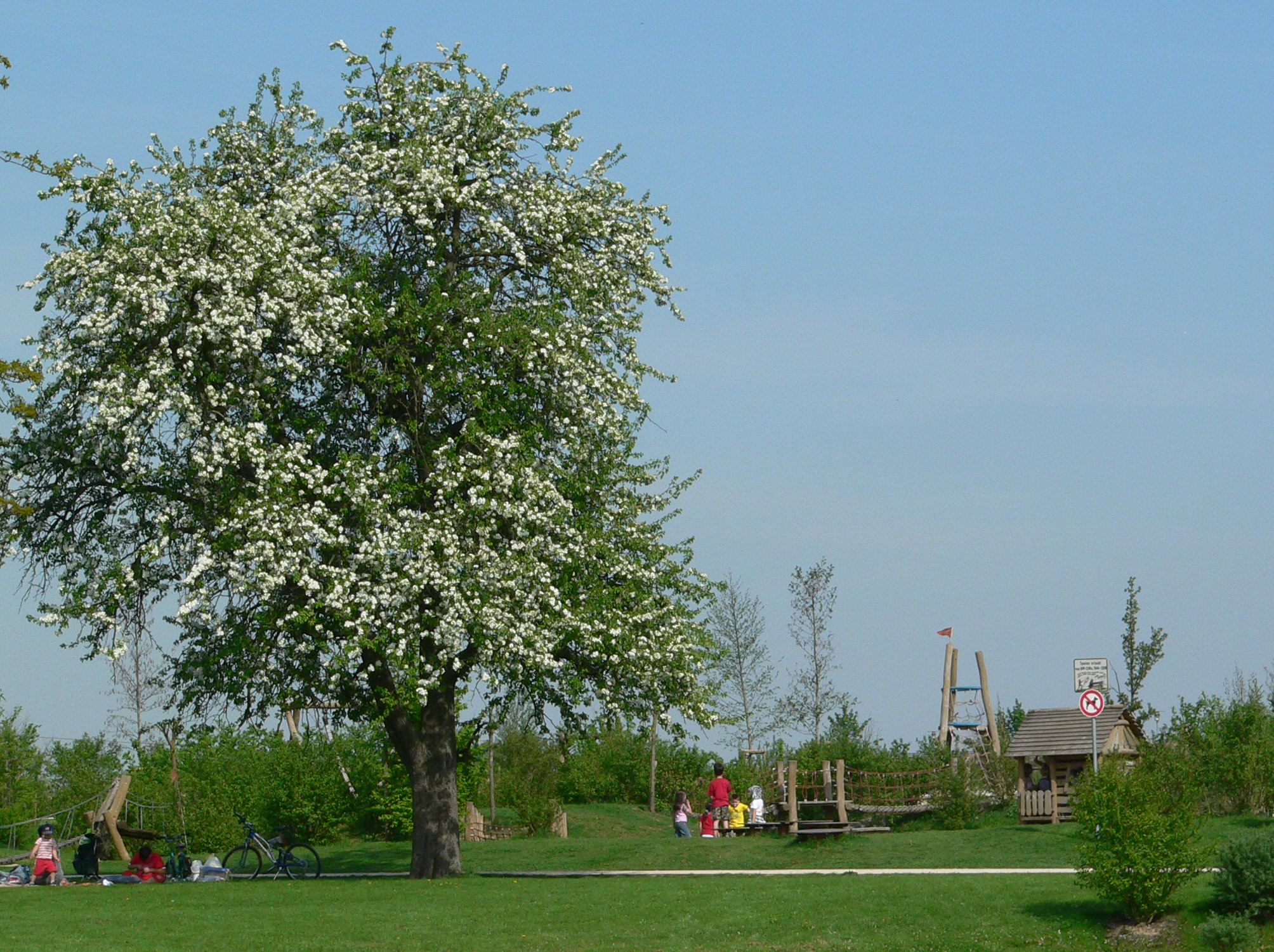 The Park "Grüne Mitte" of Neckarsulm-Amorbach (the part of the town Neckarsulm) with adventure playground